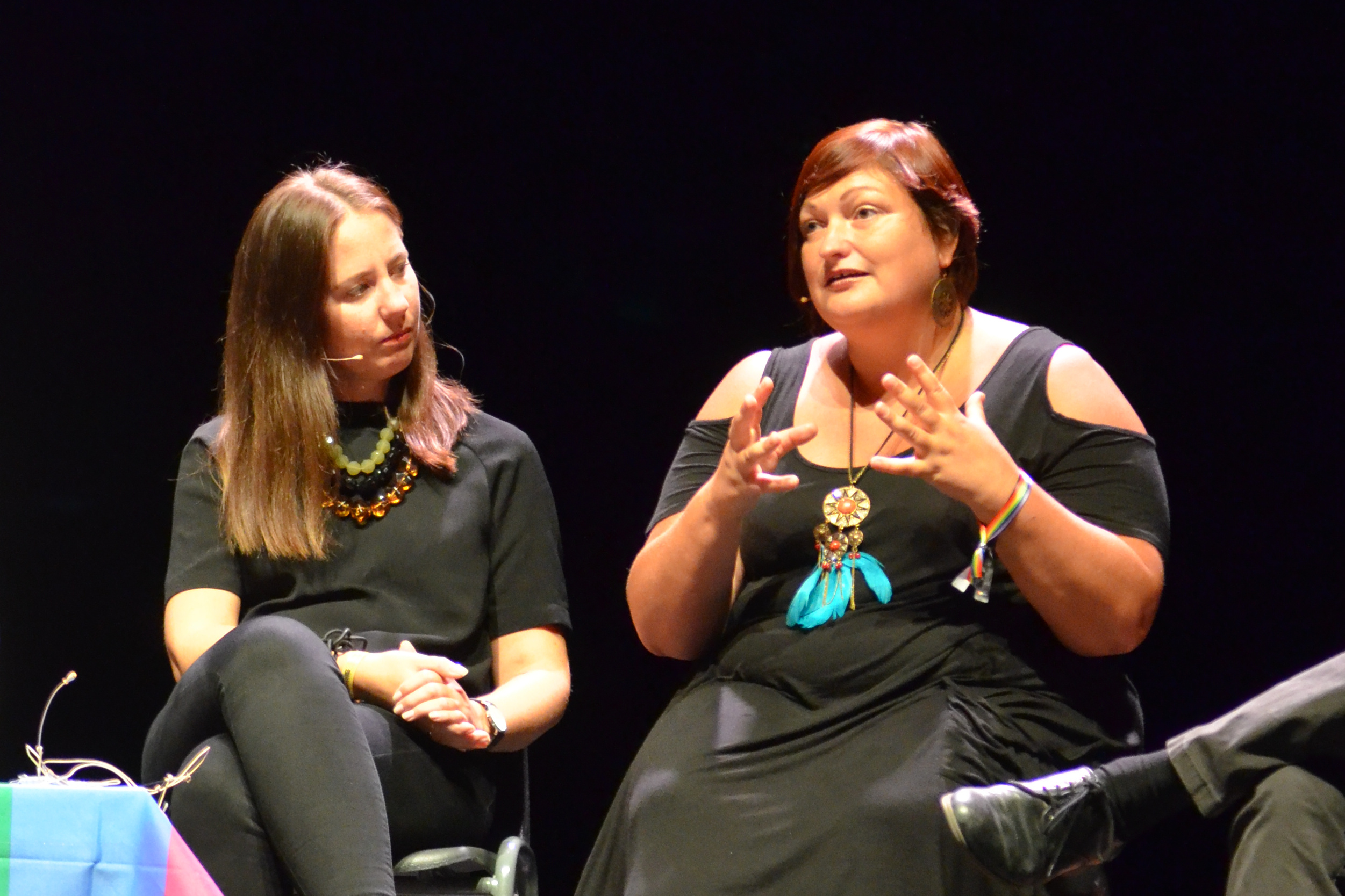 Closing session: Challenges ahead